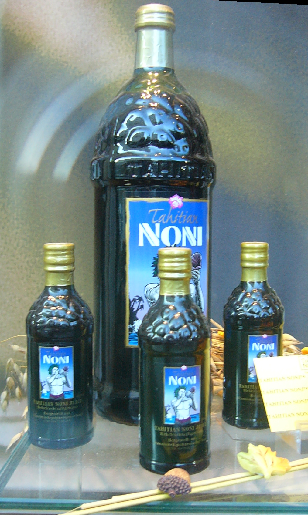 Tahitian Noni - bottles